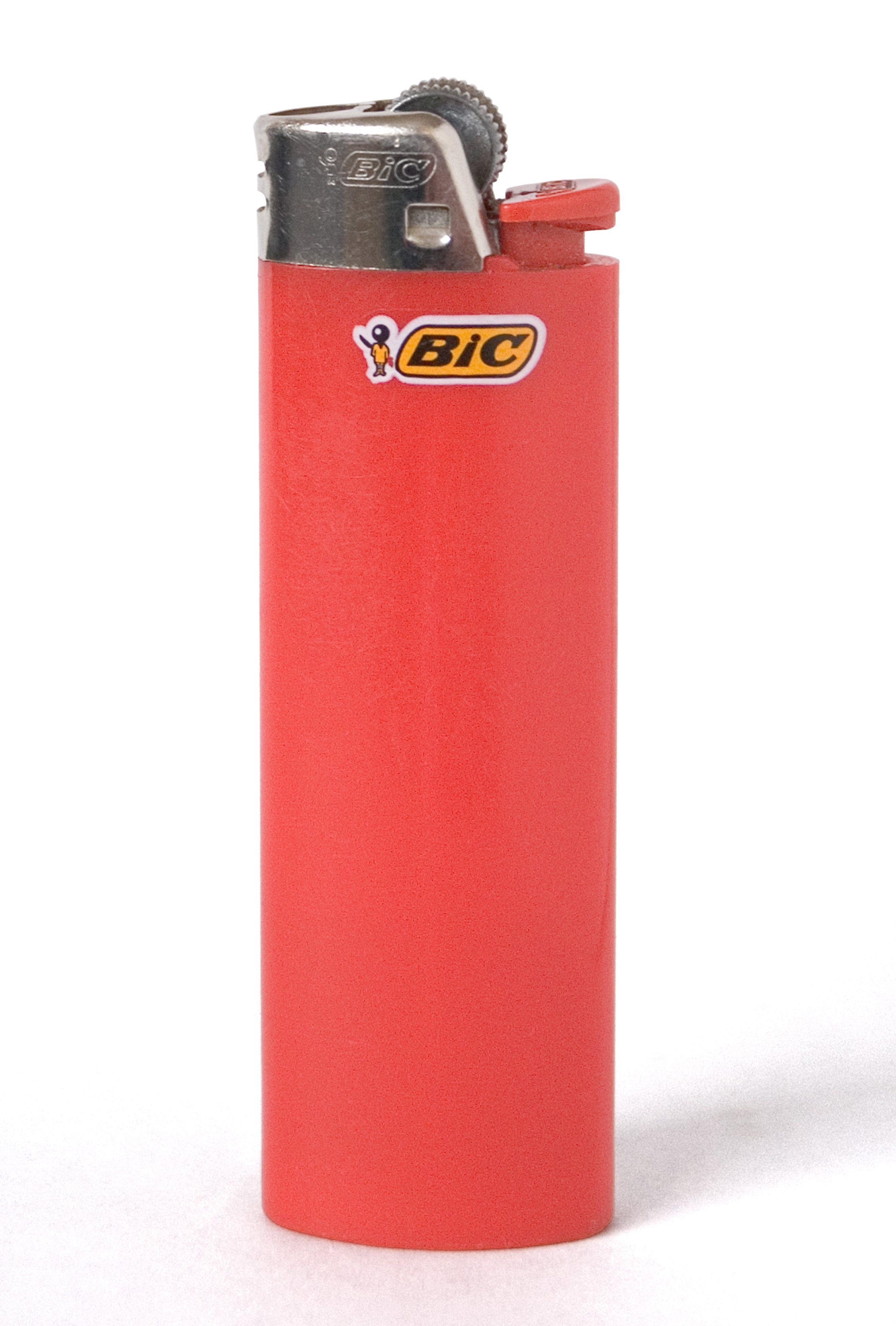 A Bic cigarette lighter